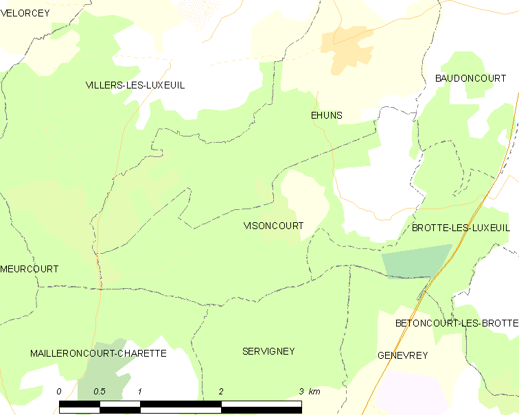 Map of French municipality